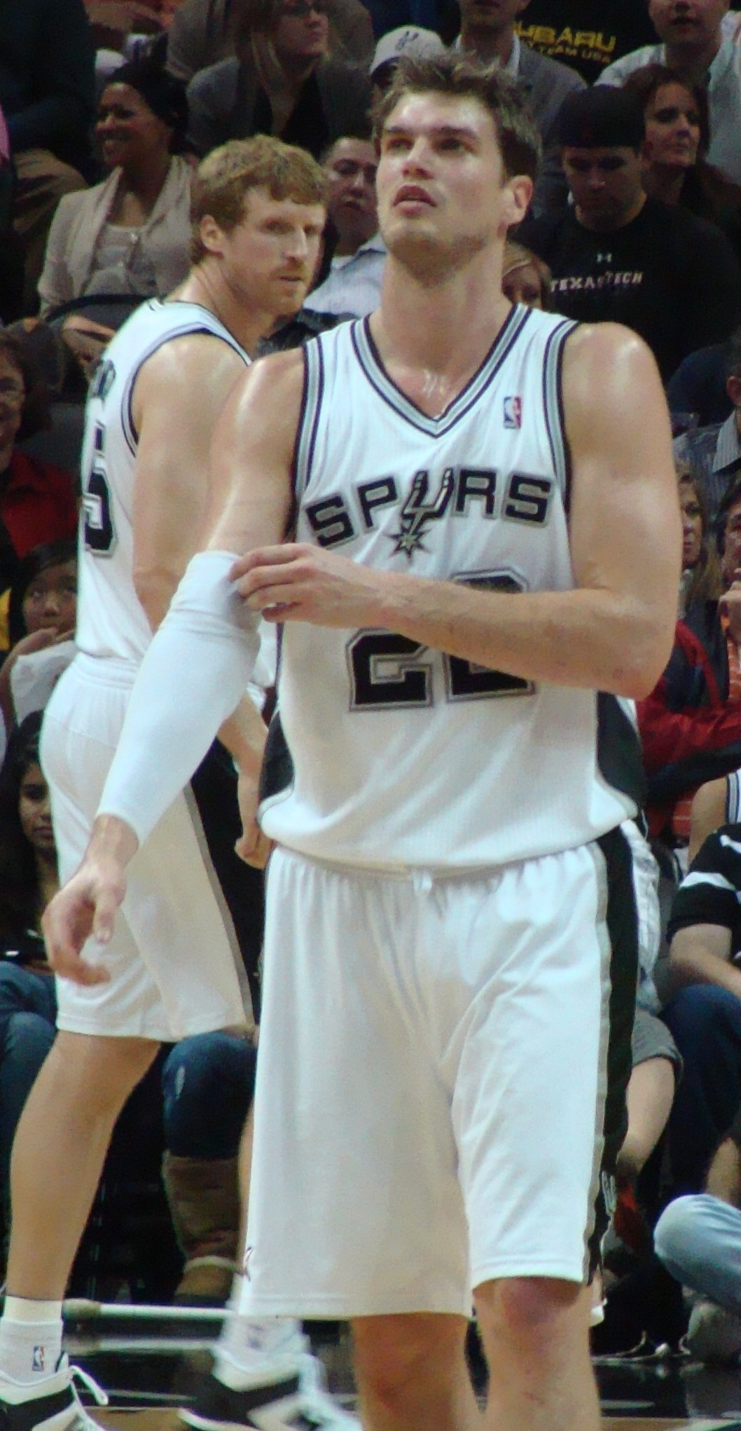 Tiago Splitter of the San Antonio Spurs, during the Spurs-Nuggets match on 12-22-2010 in San Antonio, TX. Matt Bonner is in the background.